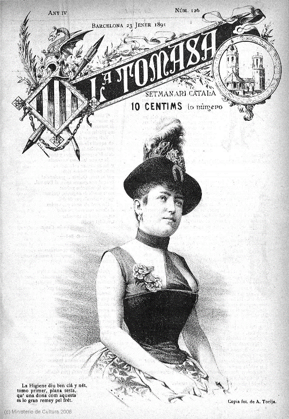 Revista La Tomasa.